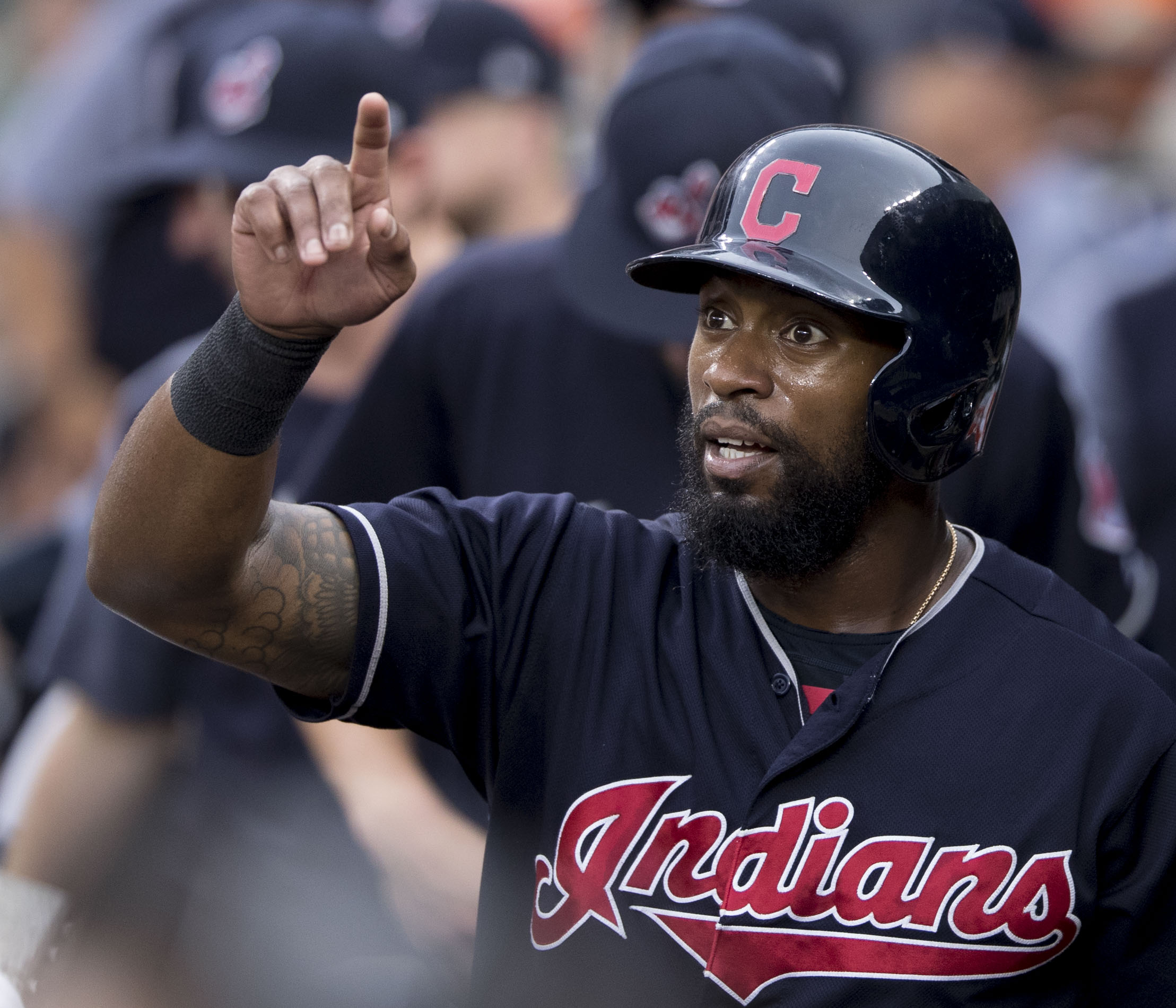 Indians at Orioles 6/22/17